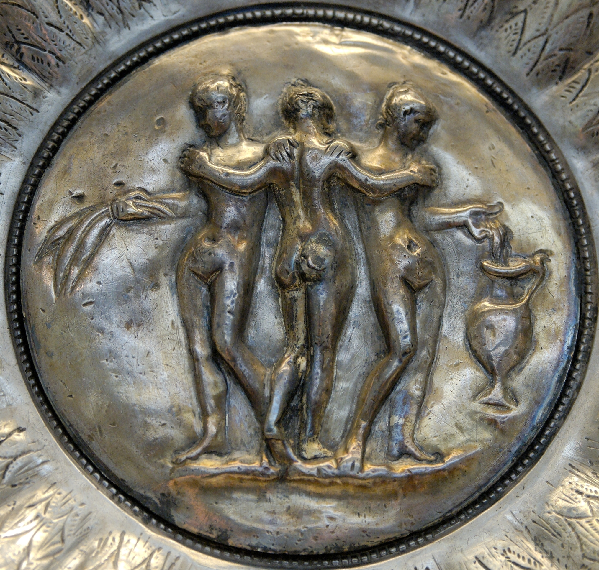 The three Graces. Figured medallion of a silver washing-bowl from the Chatuzange Treasure, Roman artwork.